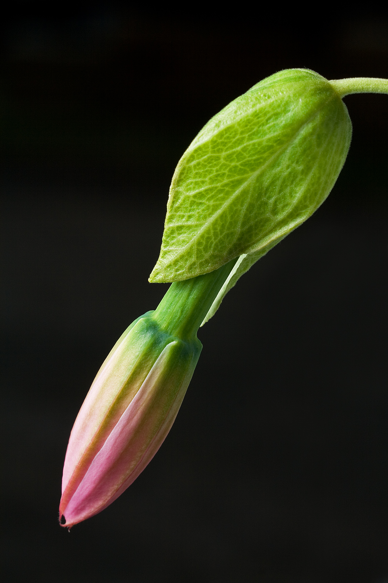 Banana Passionfruit (Passiflora tarminiana) flower prior to opening Camera data Camera Canon EOS 400D Lens Canon EF 70-200mm f4L w/ 12mm extension tube Flash Shoot through umbrella left Focal length 91 mm Aperture f/10 Exposure time 1/160 s Sensivity ISO 400